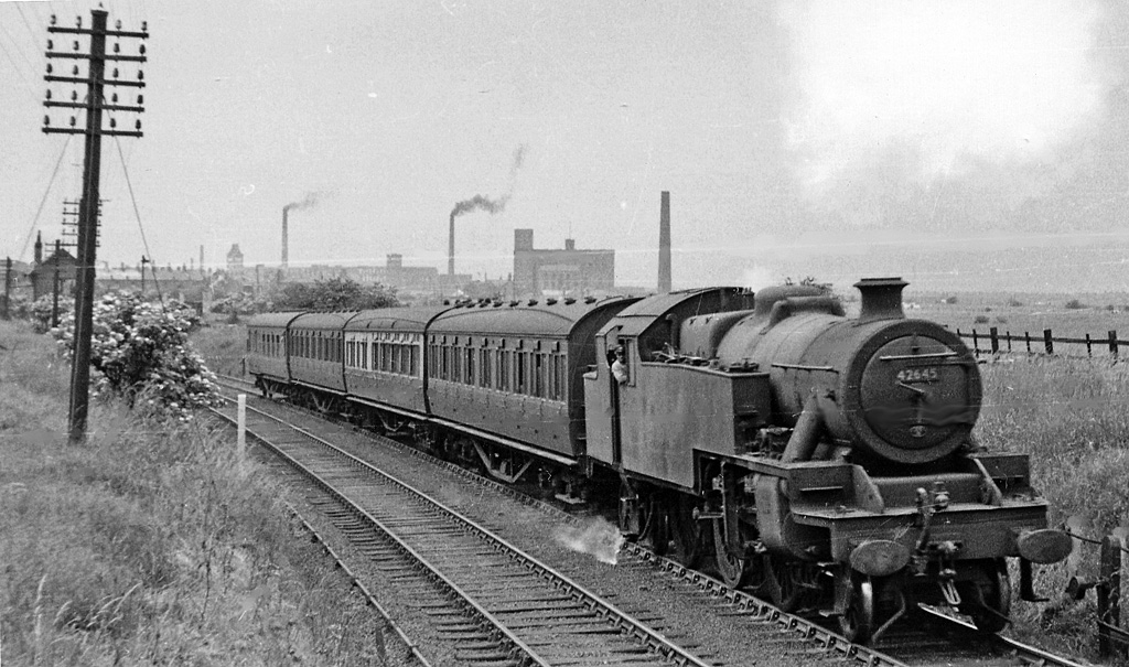 Local train from Manchester Exchange approaching Ashton (Charlestown) Station. View westward from Moss Lane, towards Manchester. The train, probably going to Huddersfield, is headed by Stanier 4P 2-6-4T No. 42645. The view is across Ashton Moss to Droylesden.